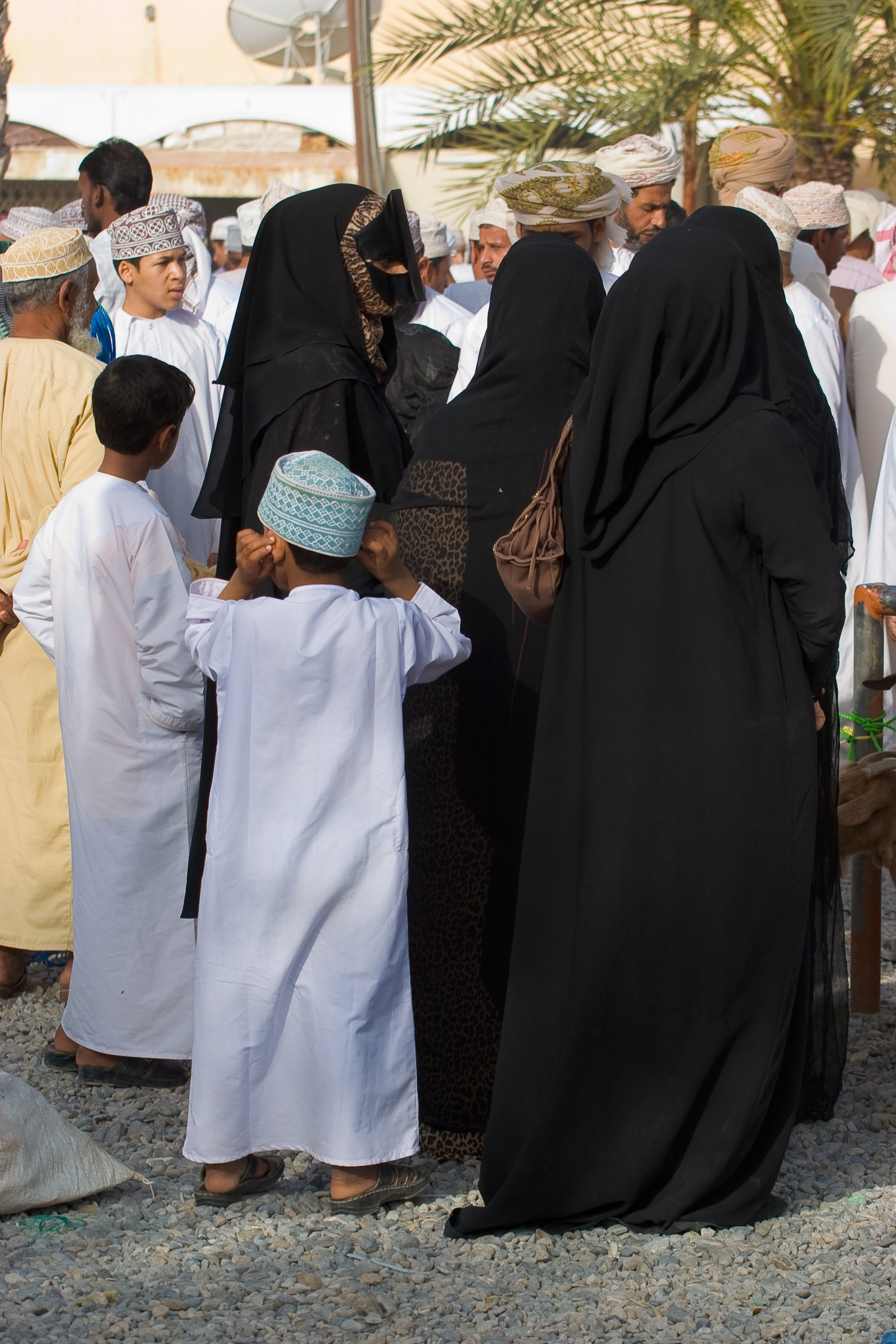 Women with boys at Nizwa goat market